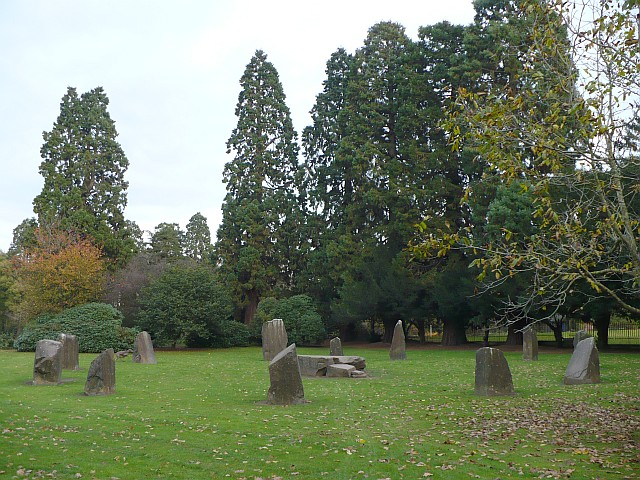 Gorsedd stone circle, Tredegar House Park Erected for the National Eisteddfod which was held here in 1988.